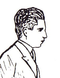 Kostas Karyotakis self portrait